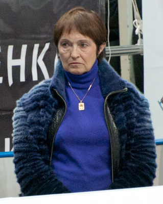 2011 Cup of Russia, short program.